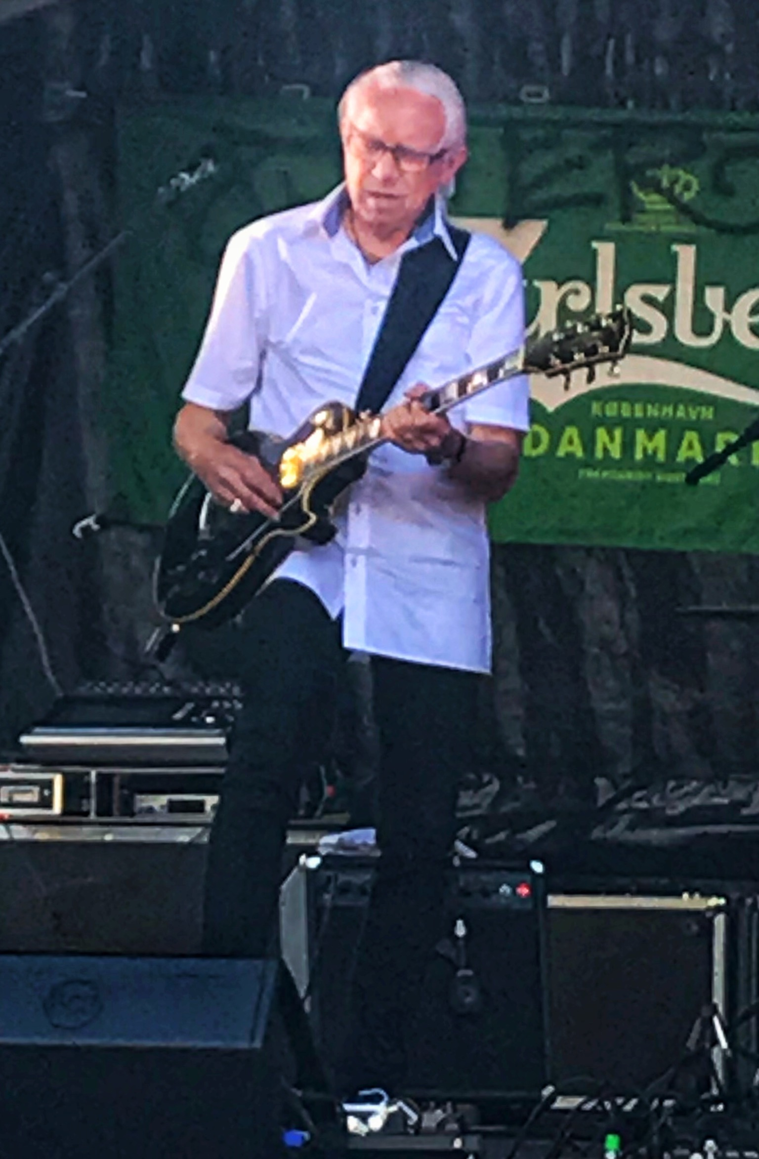 Blues guitarist Kenn Lending at Copenhagen Jazz Festival 2019